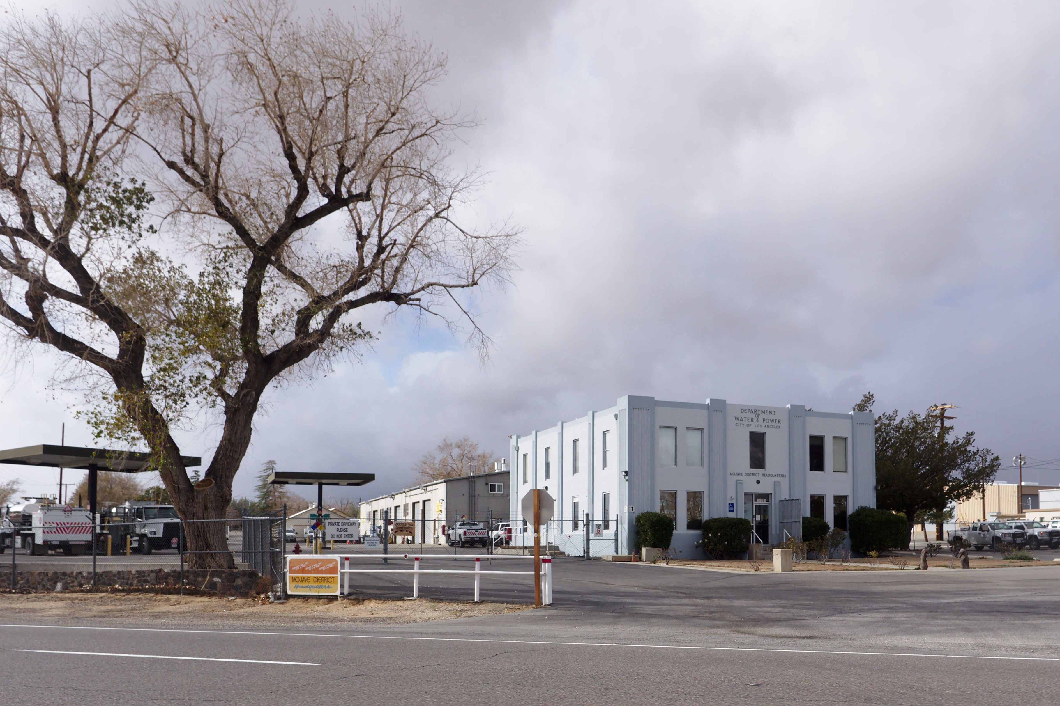 LADWP Mojave District Headquarters from southeast